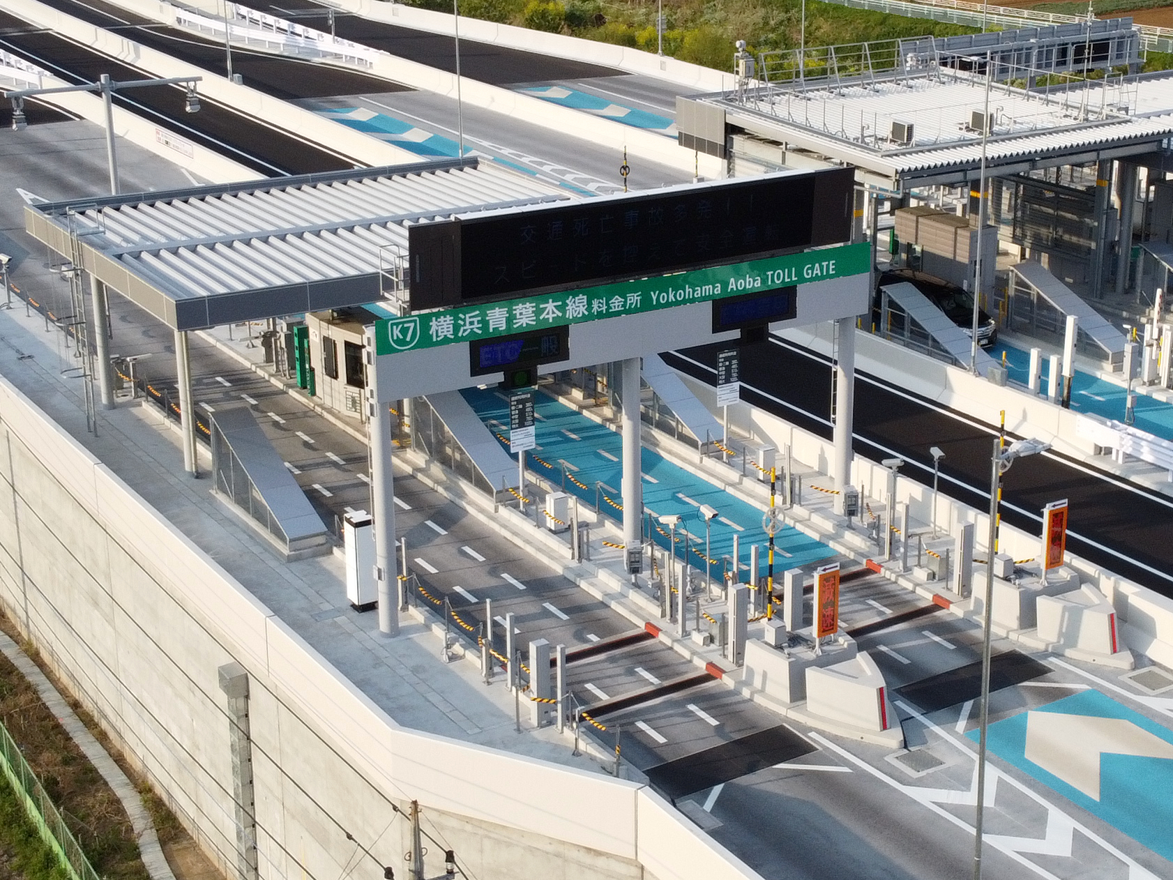 Aerial view of exit toll gates of Yokohama Hokusei Line